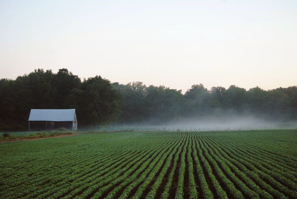 The exterior of the tobacco farm in Norfolk County, Ontario, Canada on a summer afternoon in 2012.